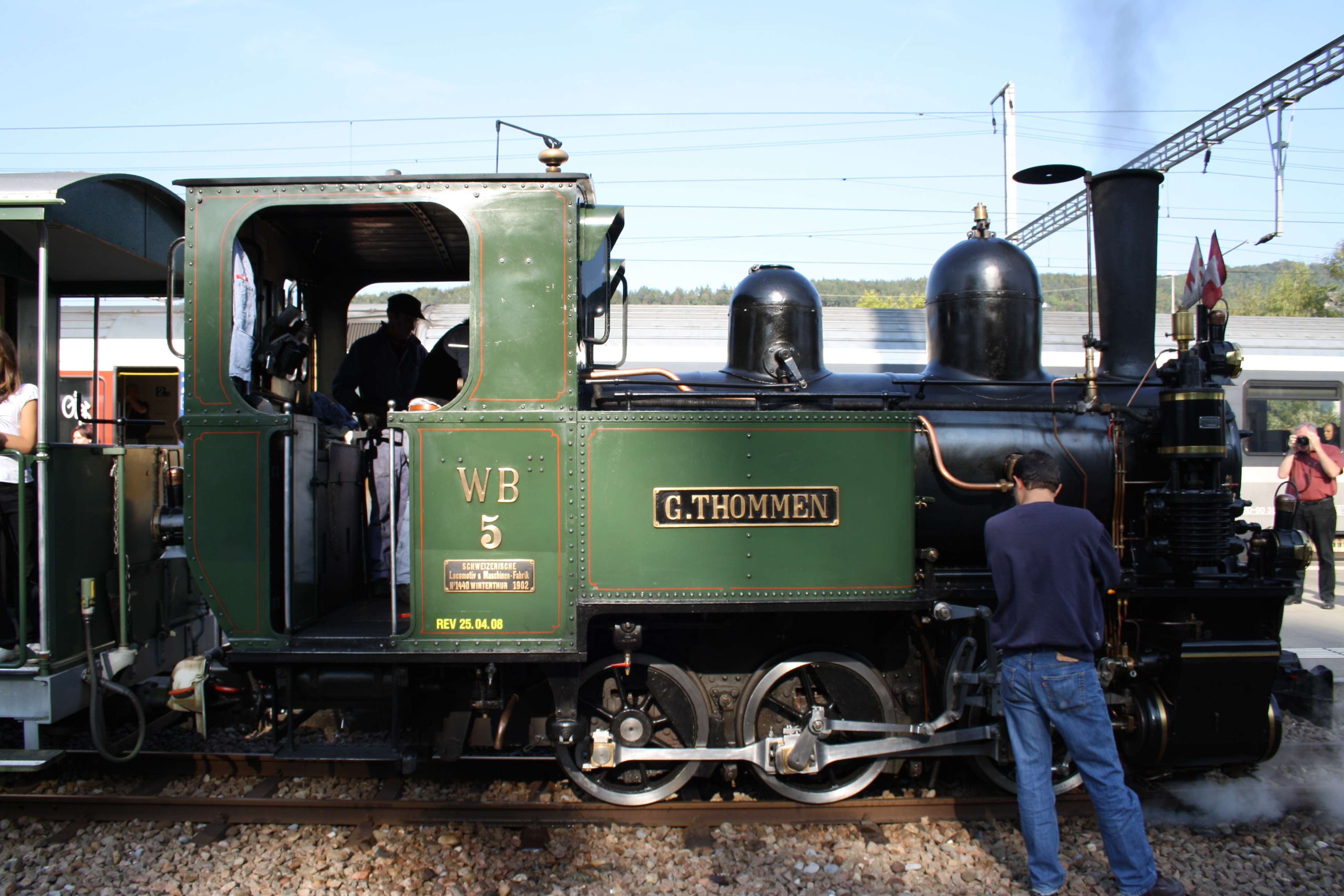 Locomotive G 3/3 5 Gedeon Thommen of the Waldenburg railway in Switzerland. The locomotive was build by the Swiss Locomotive and Machine Works in 1902.